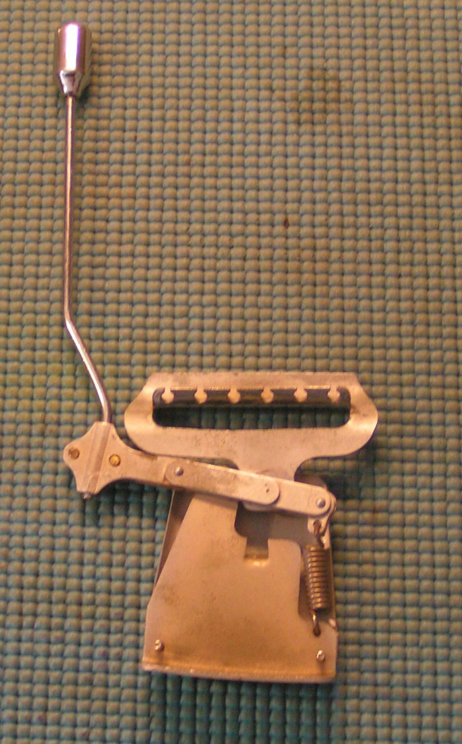 A rear view of the Kaufmann Vib-Rola tailpiece showing spring mechanism and string retainer.